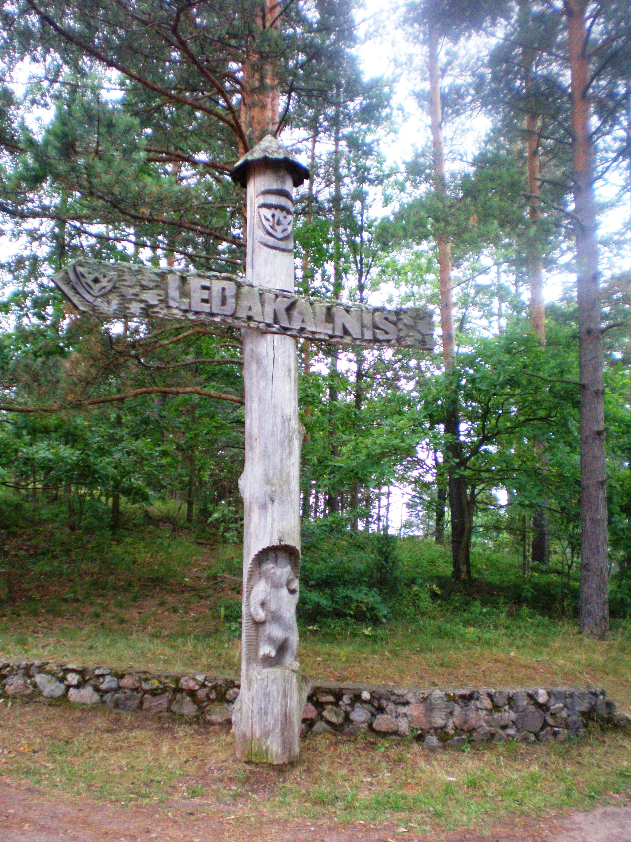 Sign by the Ladakalnis (Ledakalnis) hill in Ignalina district